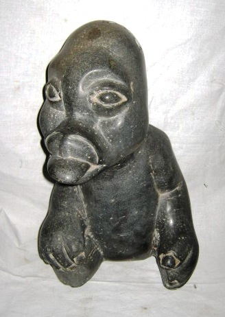 PC - 6700 - 0021, Matemera Bernard, Figure